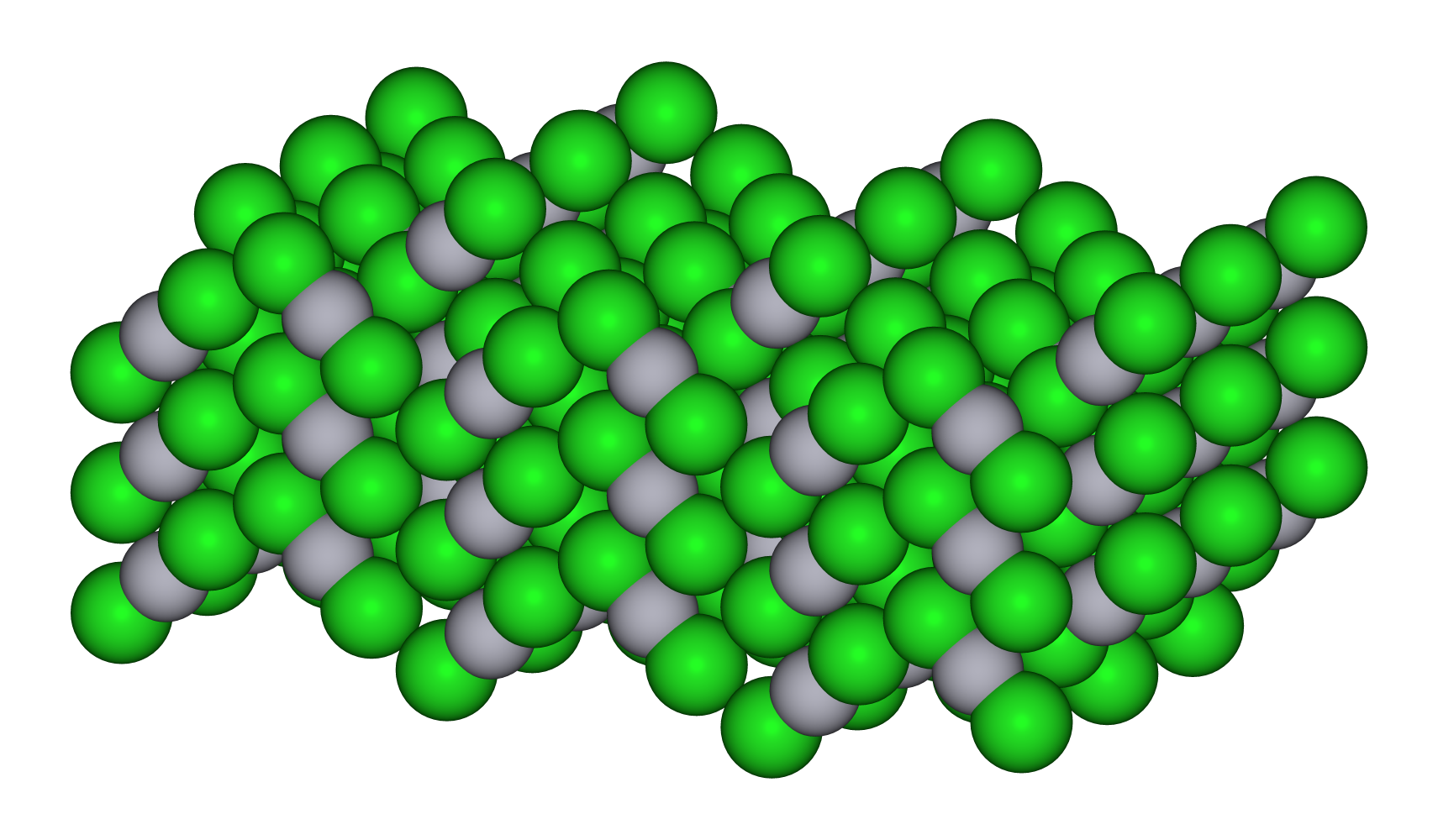 Space-filling model of part of the crystal structure of Mercury(II) chloride, HgCl2. Structural data from the CrystalMaker 8.1 structure library, originally from Wyckoff R W G Crystal Structures 1 (1963) 306-307.